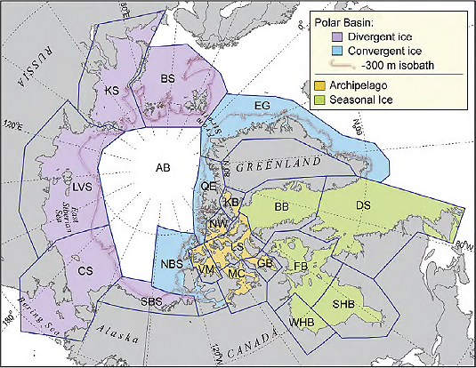 Map of polar bear subpopulations and ecoregions. The polar basin Divergent Ice Ecoregion (purple) includes: Southern Beaufort Sea (SBS), Chukchi Sea (CS), Laptev Sea (LVS), Kara Sea (KS), and the Barents Sea (BS). The polar basin Convergent Ice Ecoregion (blue) includes: East Greenland (EG), Queen Elizabeth (QE), Northern Beaufort Sea (NBS). The Seasonal Ice Ecoregion (Green) includes: Southern Hudson Bay (SHB), Western Hudson Bay (WHB), Foxe Basin (FB), Davis Strait (DS), and Baffin Bay (BB). The Archipelago Ecoregion (yellow) includes: Gulf of Boothia (GB), M’Clintock Channel (MC), Lancaster Sound (LS, orange), Viscount-Melville Sound (VM), Norwegian Bay (NW), and Kane Basin (KB).